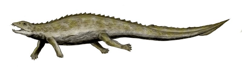 Placodus gigas, a placodont from the Middle Triassic of Germany, pencil drawing